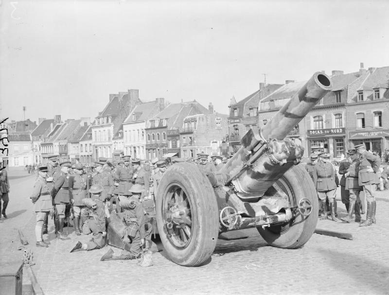 The British Army in France 1940 An 8-inch howitzer during an inspection by French General Georges at Bethune, 23 April 1940.